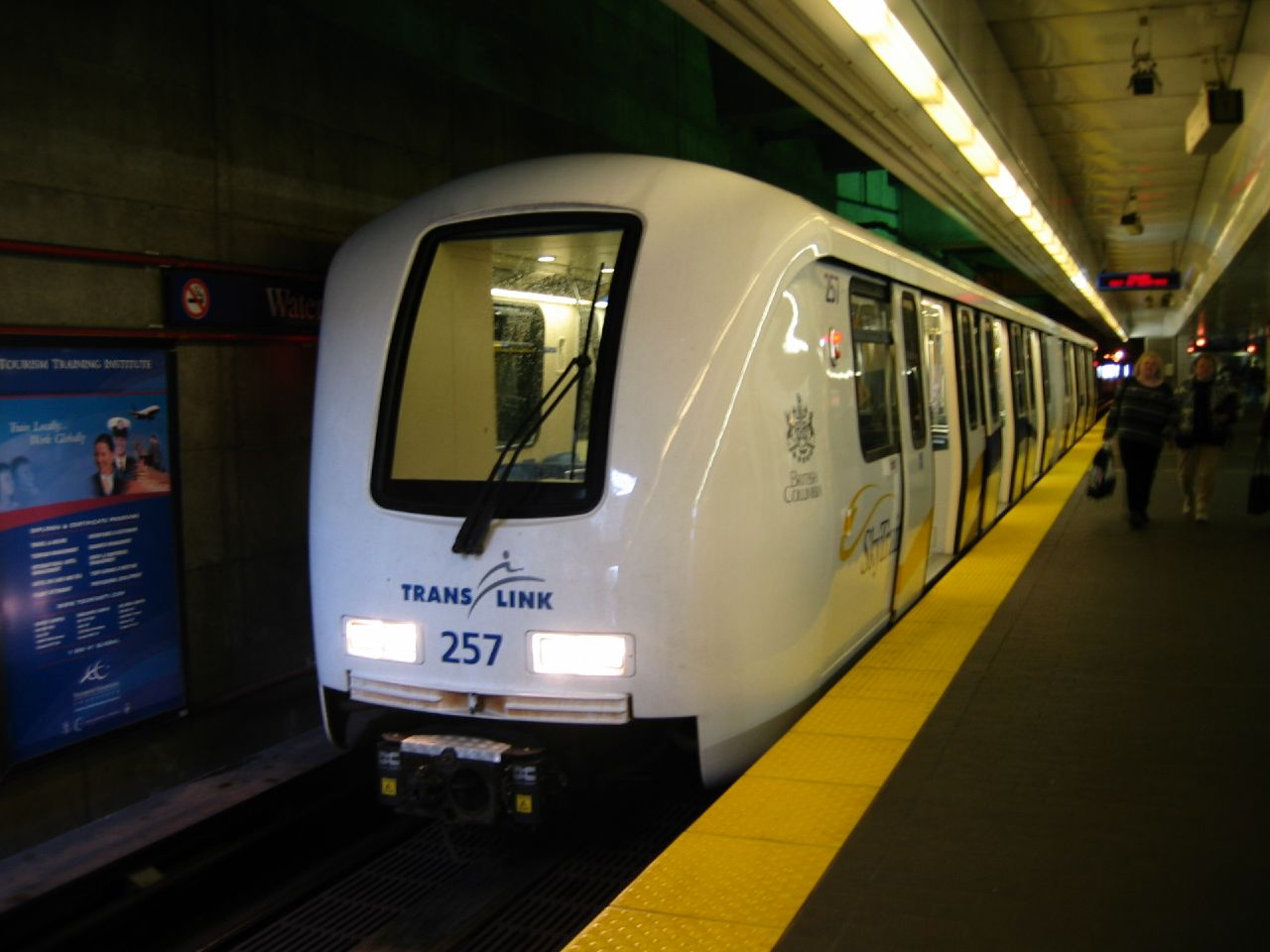 A train (type MKII) of Vancouver's Skytrain at Waterfront station